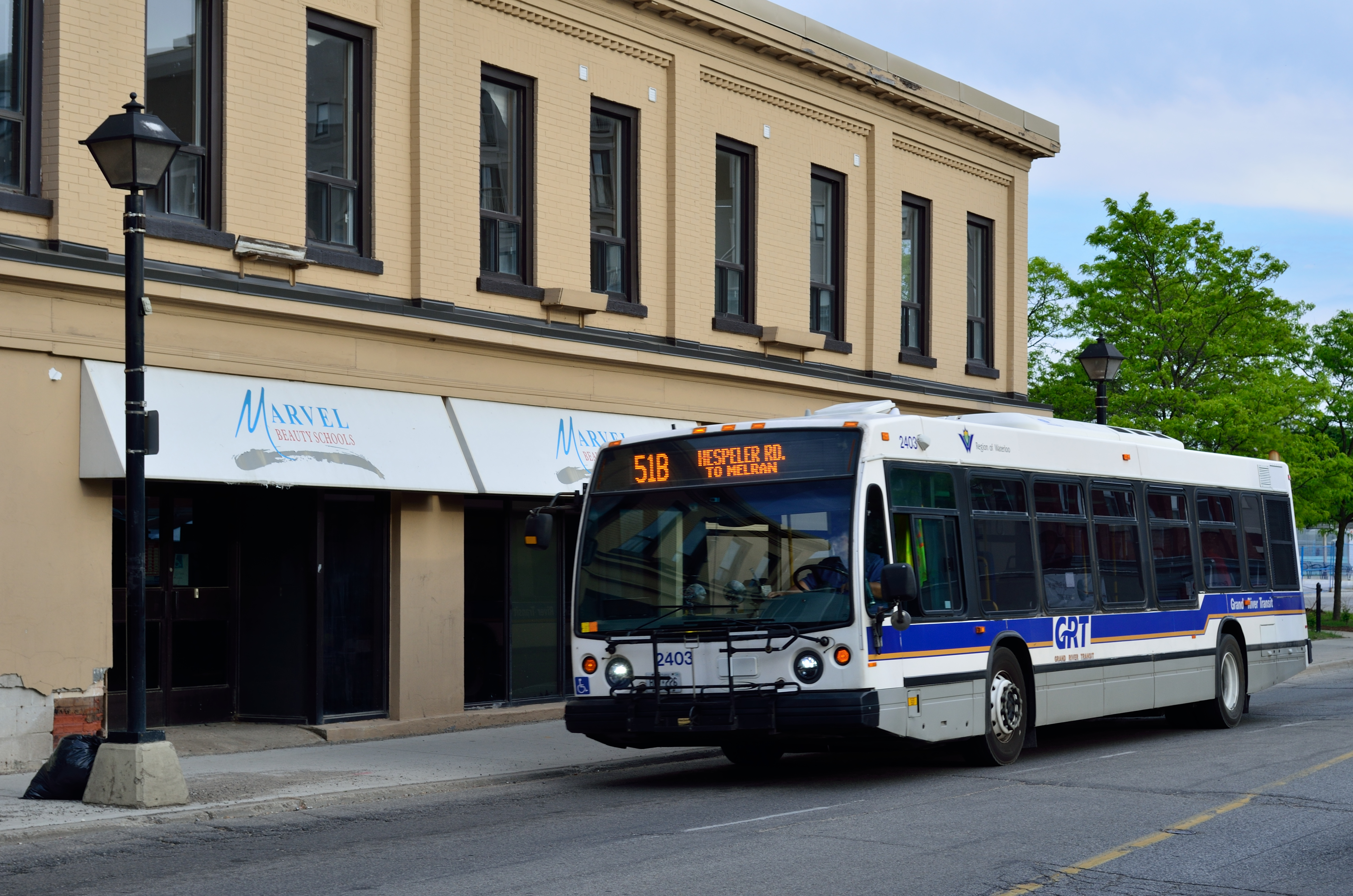 GRT bus on Ainslie Street South, Cambridge, Ontario, Canada.